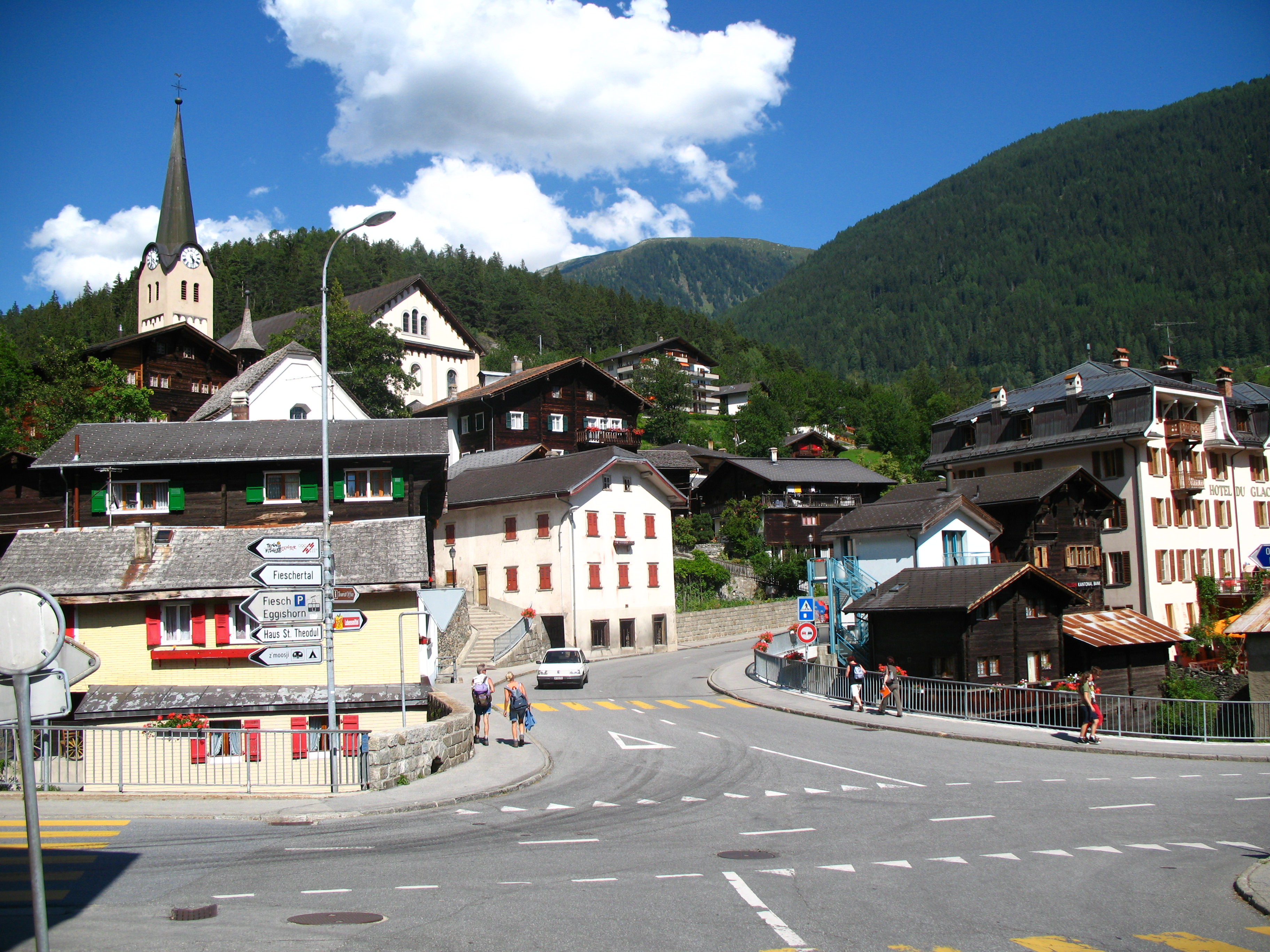 Train Station Street at Fiesch Valley Street (left) und Furka Street (straight and right), Fiesch, Switzerland